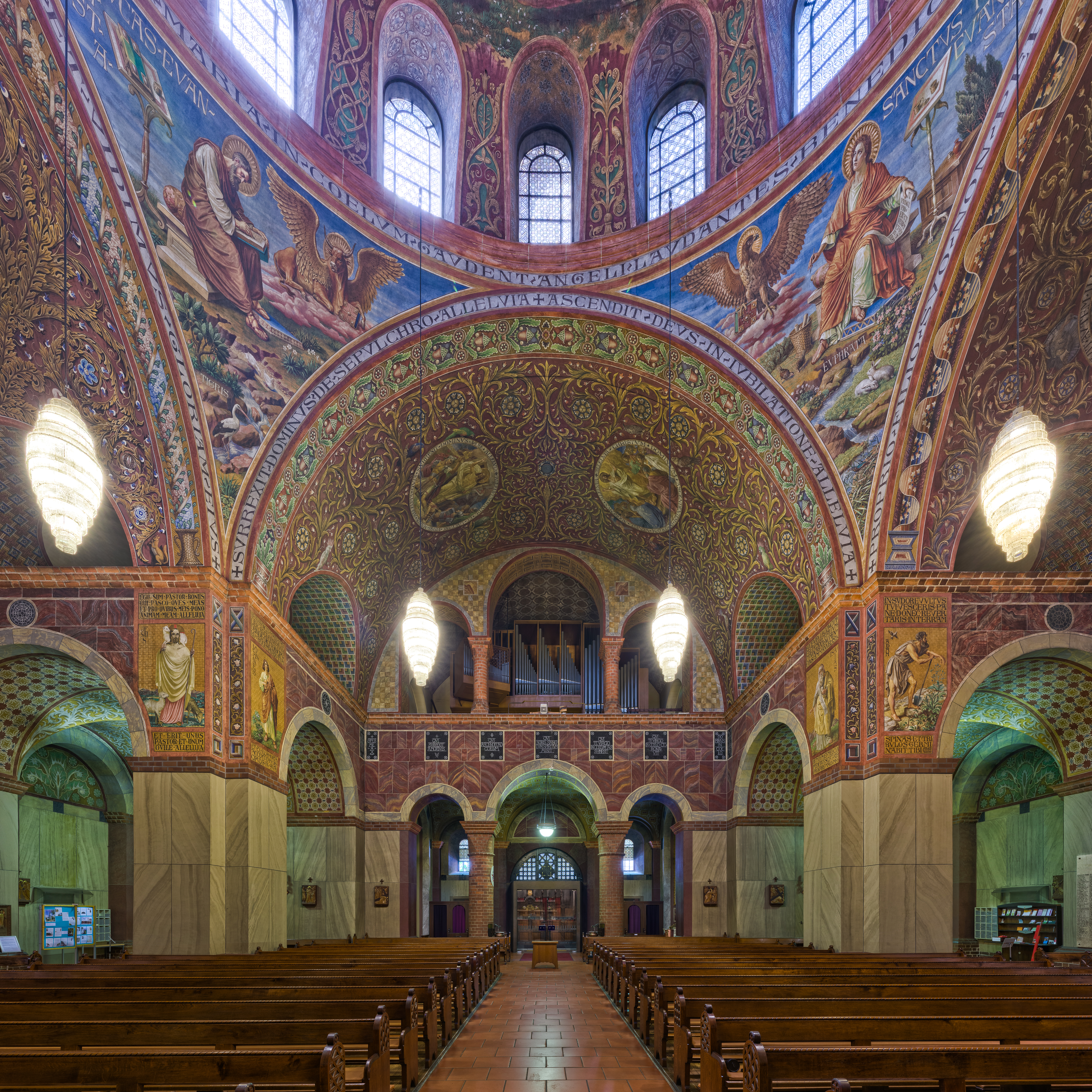 Interior of the roman-catholic Rosenkranzbasilika ("Rosary Basilica") in Berlin-Steglitz. The basilica was built in 1899/1900 according to plans by Christoph Hehl. The church was painted mainly by Friedrich Stummel. After his death the paintings were completed by Theodor Nüttgens and Karl Wenzel.